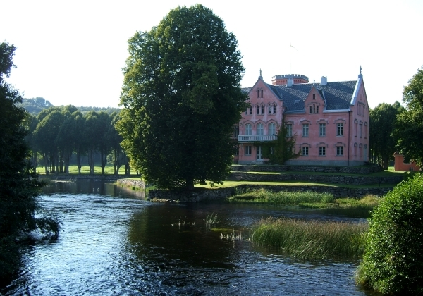 Gåsevadholm castle in the northern province of Halland, Sweden